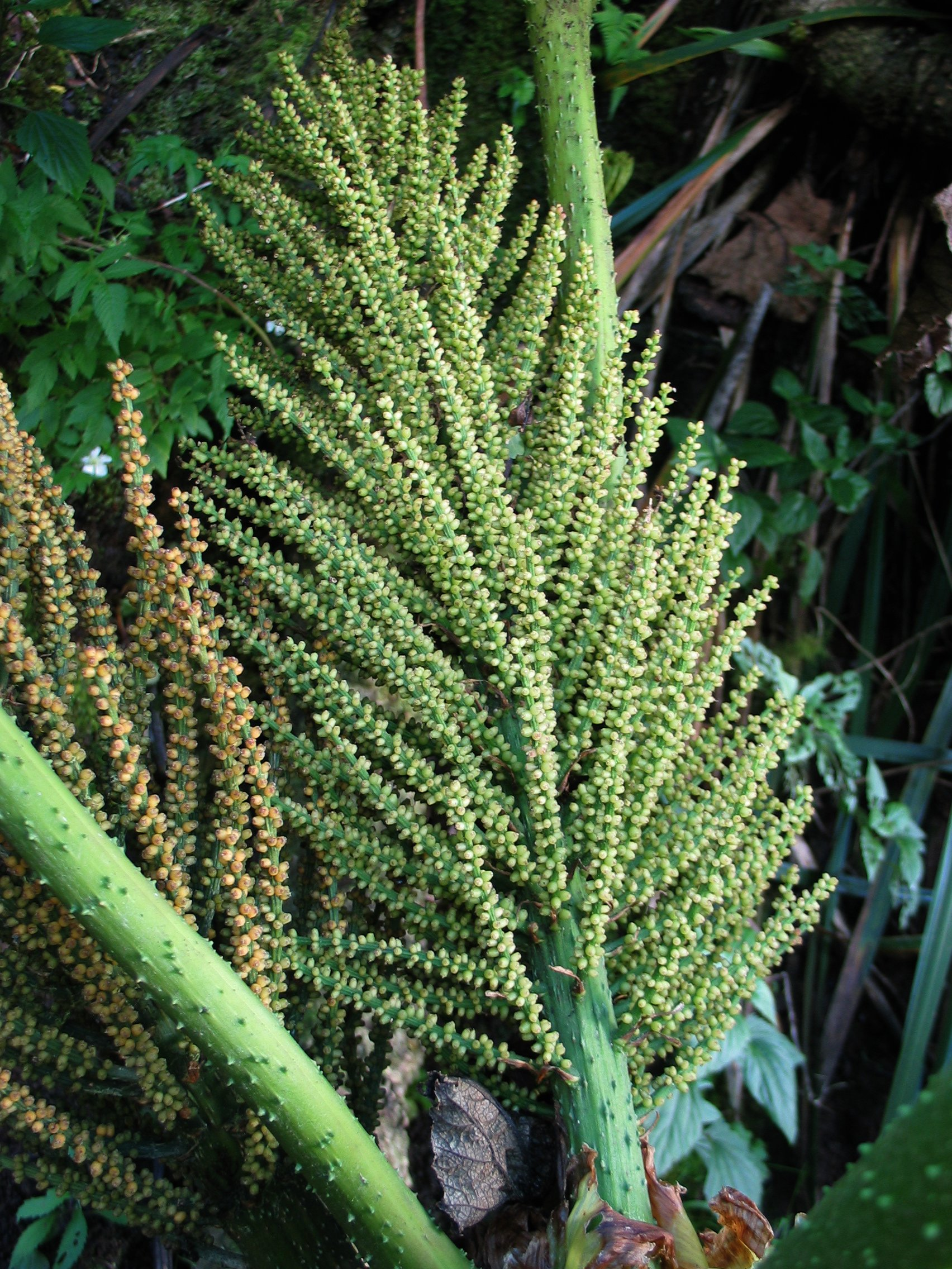 ʻApeʻape Gunneraceae Endemic to the Hawaiian islands Mt. Kaʻala, Oʻahu